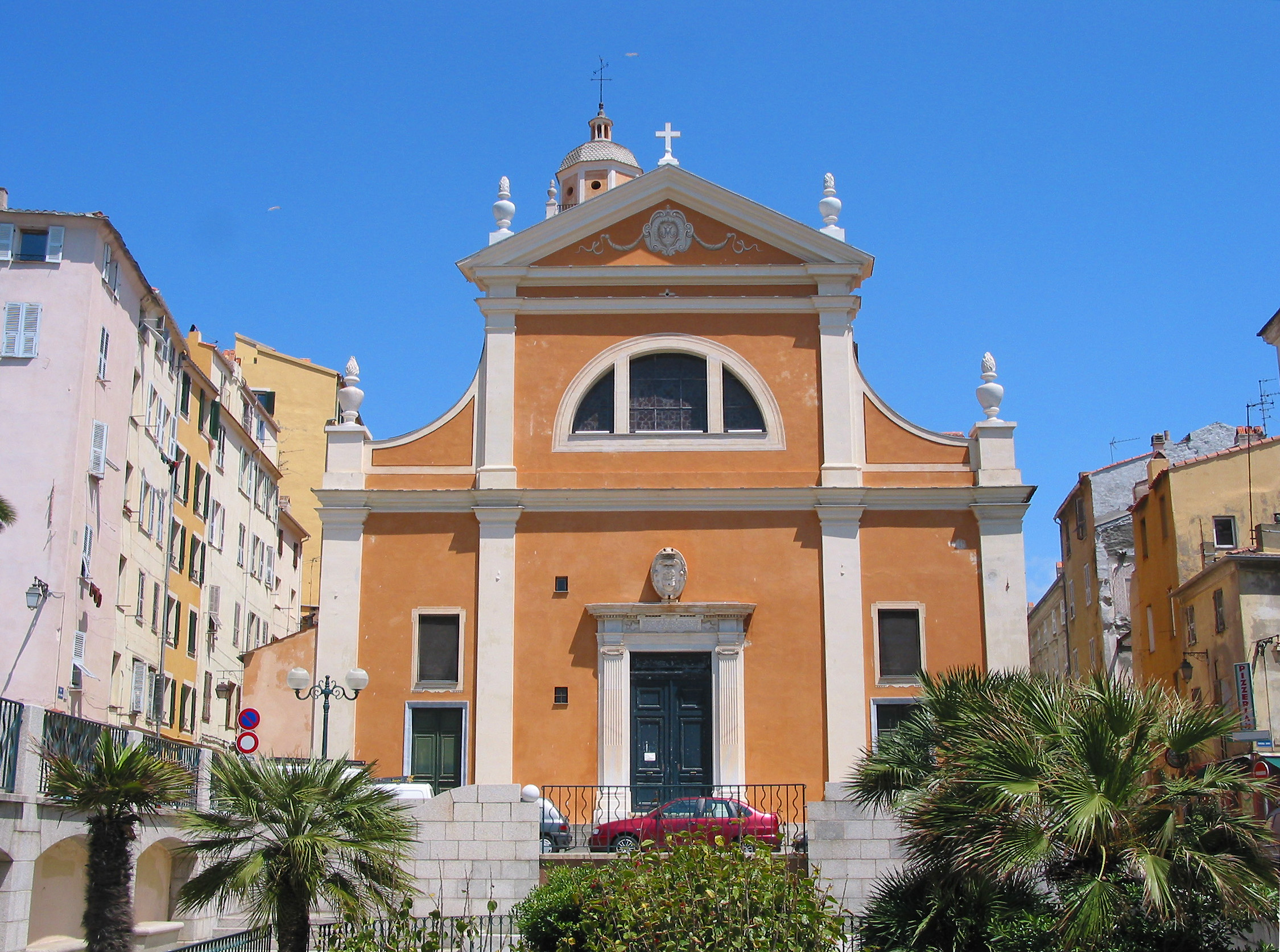 Ajaccio France (Corse-du-Sud), the Santa-Maria-Assunta cathedral (1582-1893 - Giacomo Della Porta). Walon: Ajaccio France (Corse do Sud), li catèdrâle Santa-Maria-Assunta (1582-1893 - Giacomo Della Porta).